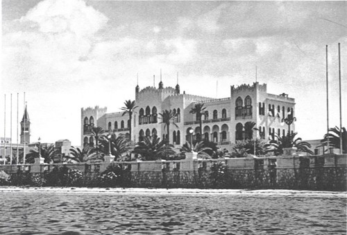 Grand Hotel in Tripoli, Libya during the 1940s. The hotel was originally built between 1925 - 1927.